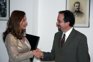 U.S. Ambassador John Bass with the Georgian Minister for Penitentiary Khatuna Kalmakhelidze.